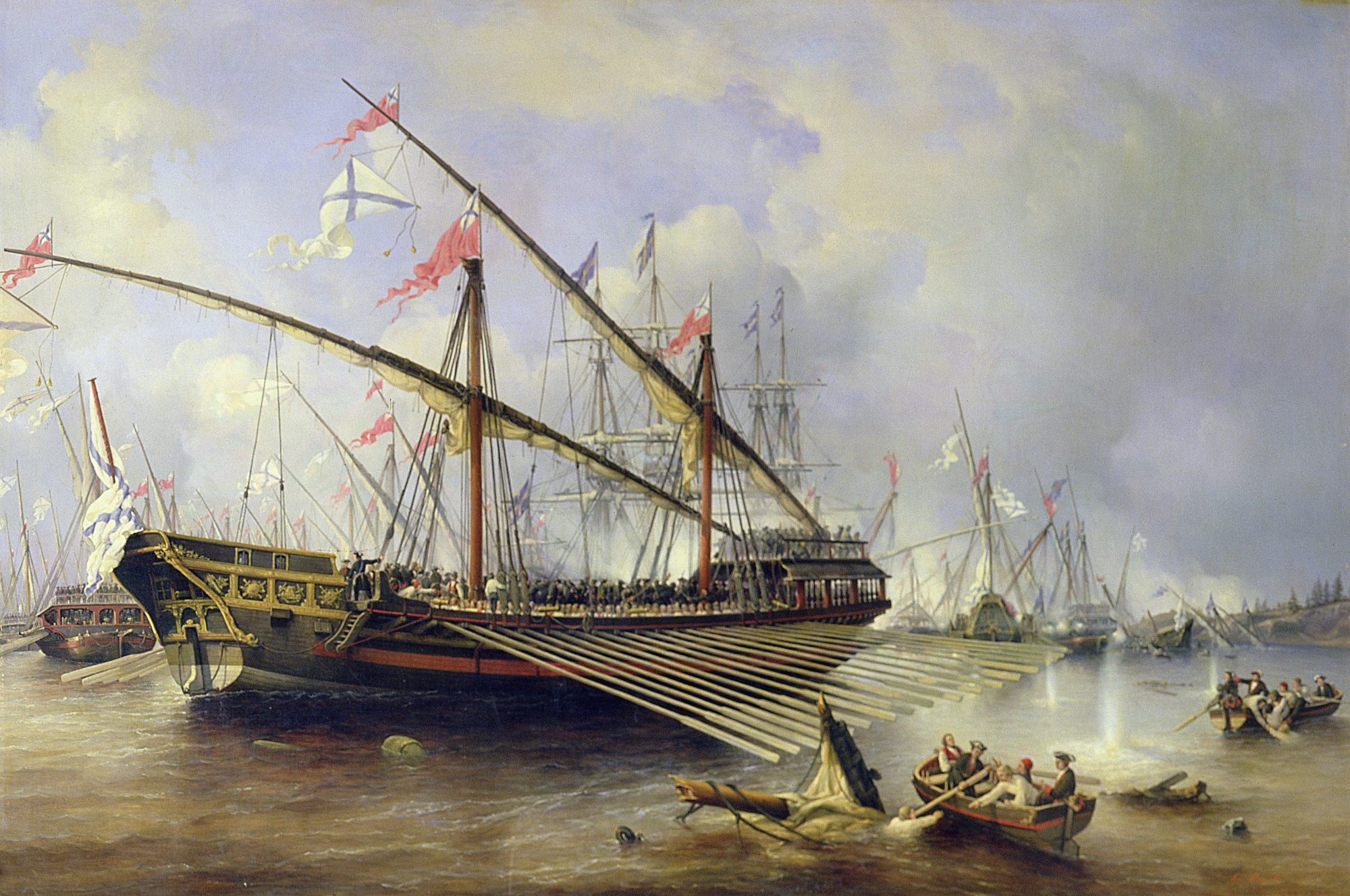 The battle of Grengam took place in the Åland Islands in the Ledsund strait; It was the last major naval battle in the Great Northern War (1700-1721) in which a coaltion including Russia, Lithuania and Denmark-Norway, successfully contested Swedish supremacy in northern Central and Eastern Europe; It is known in Sweden as the battle of Ledsund